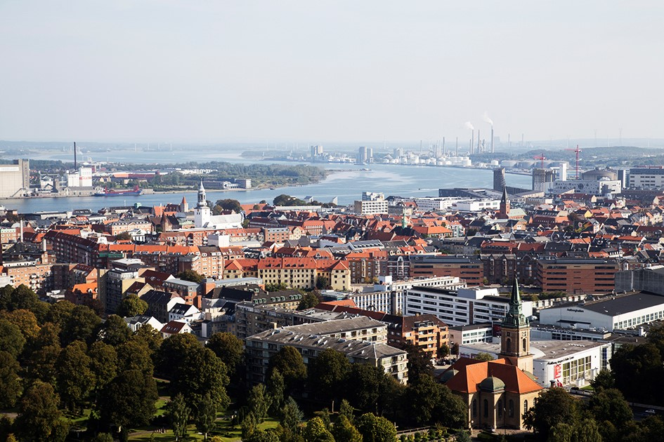 Aalborg